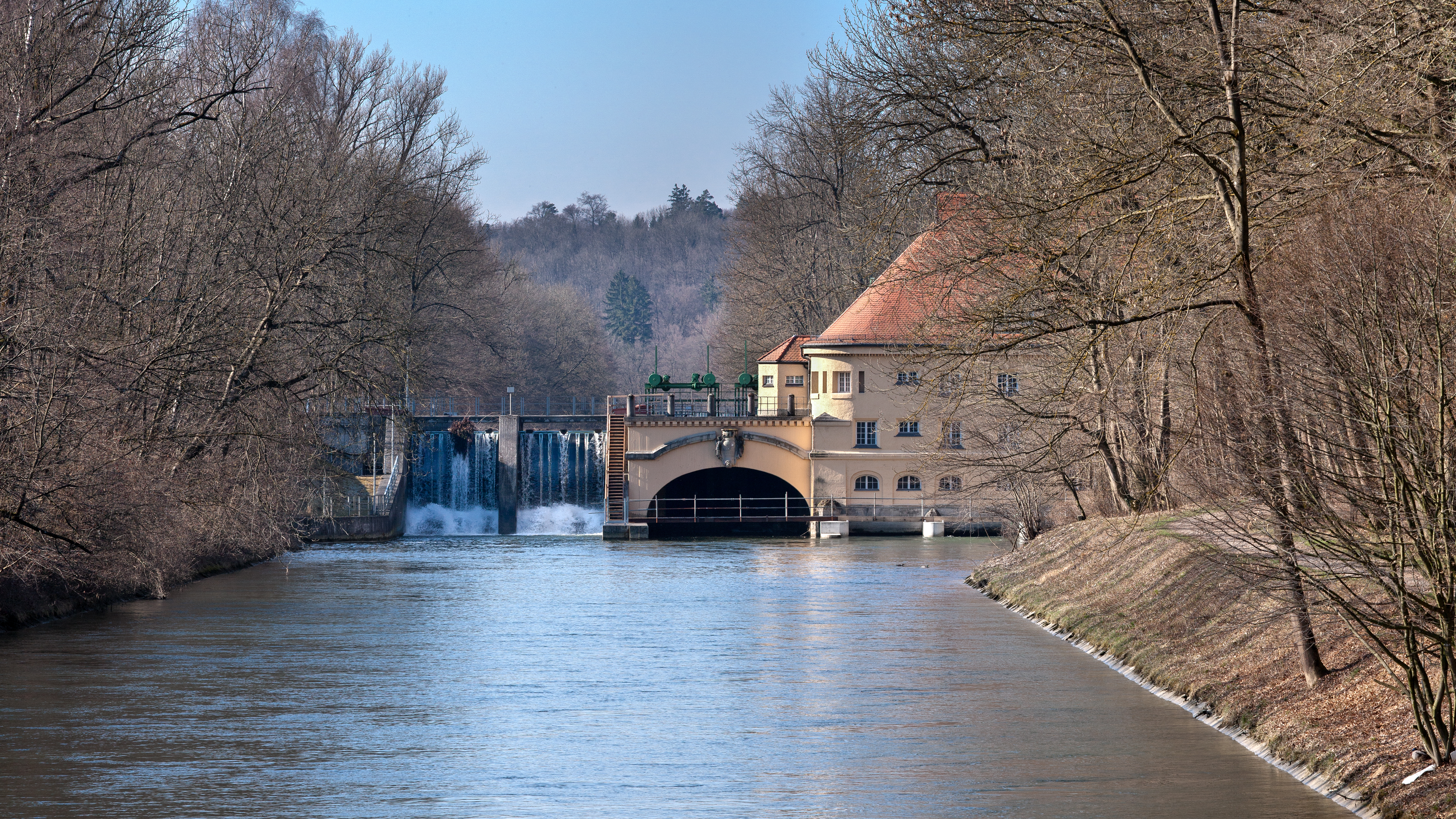 River power plant Isar 1, Isarkanal, Munich, Germany